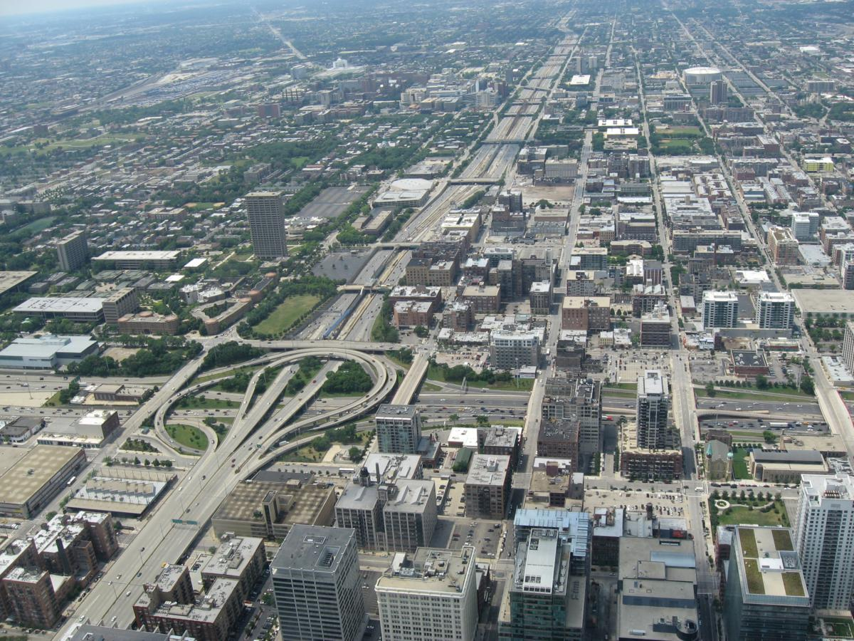 Highway entering Chicago (view from Willis Tower)